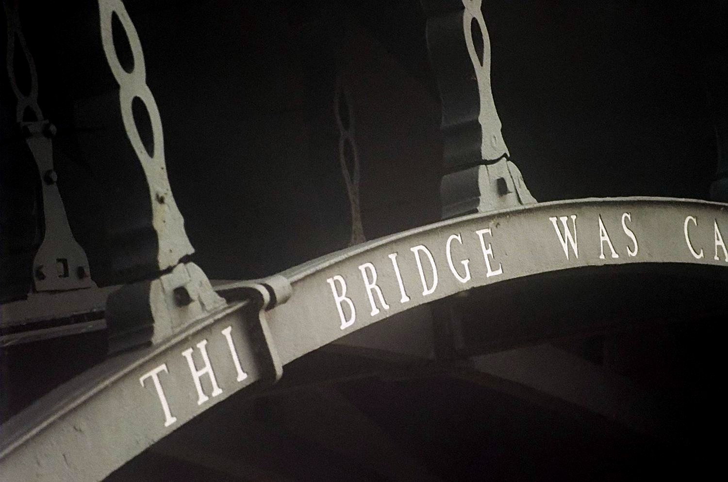 The outer ribs' engraving: ‘This Bridge was cast at Coalbrook-Dale and erected in the year MDCCLXXIX [1779]’.